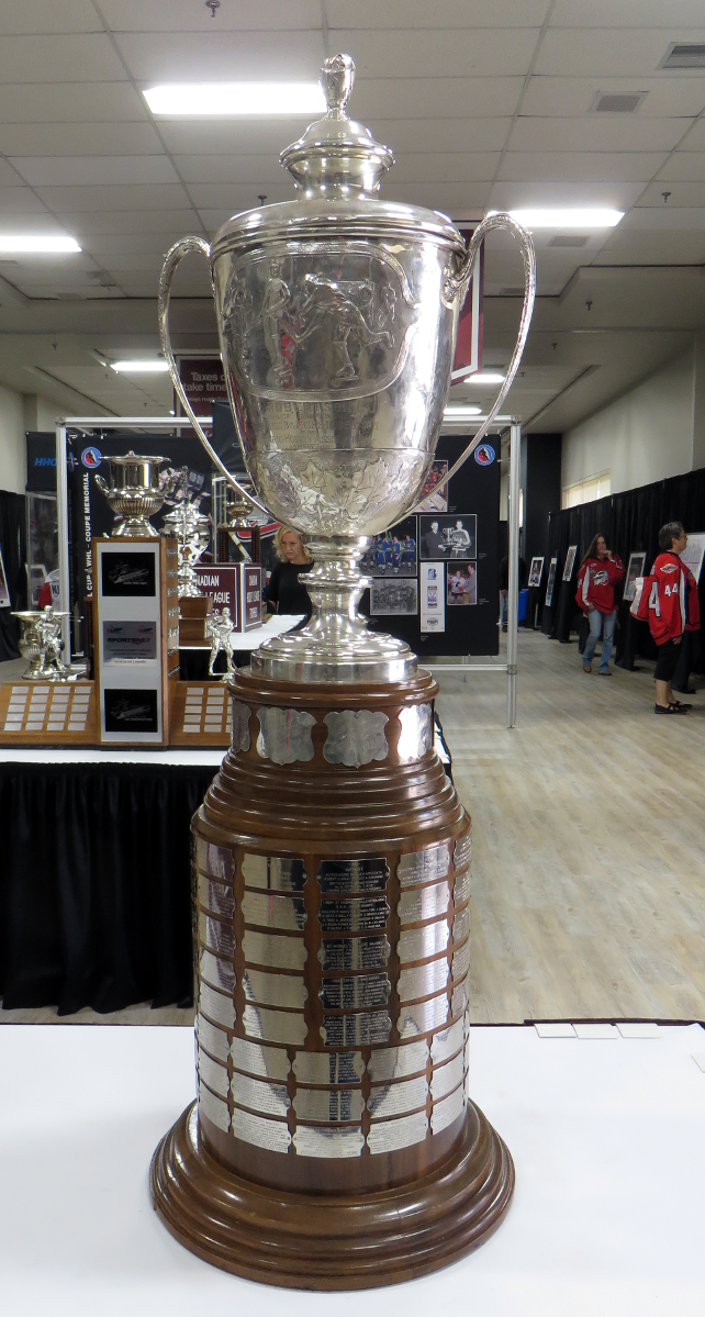 The J. Ross Robertson Cup, championship trophy of the Ontario Hockey League, on display at the 2016 Memorial Cup tournament.